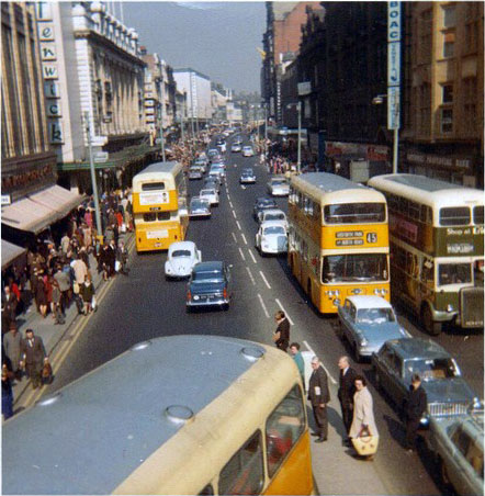 this was taken from a footbridge at the southern end of Northumberland Street in Newcastle upon Tyne, it shows the street before it was pedestrianised. It shows 4 buses, one a Gateshead Leyland PD3 with MCW Orion bodywork in green and white, the other 3 are Newcastle Leyland Atlanteans in yellow and cream. This is on a Saturday in 1969